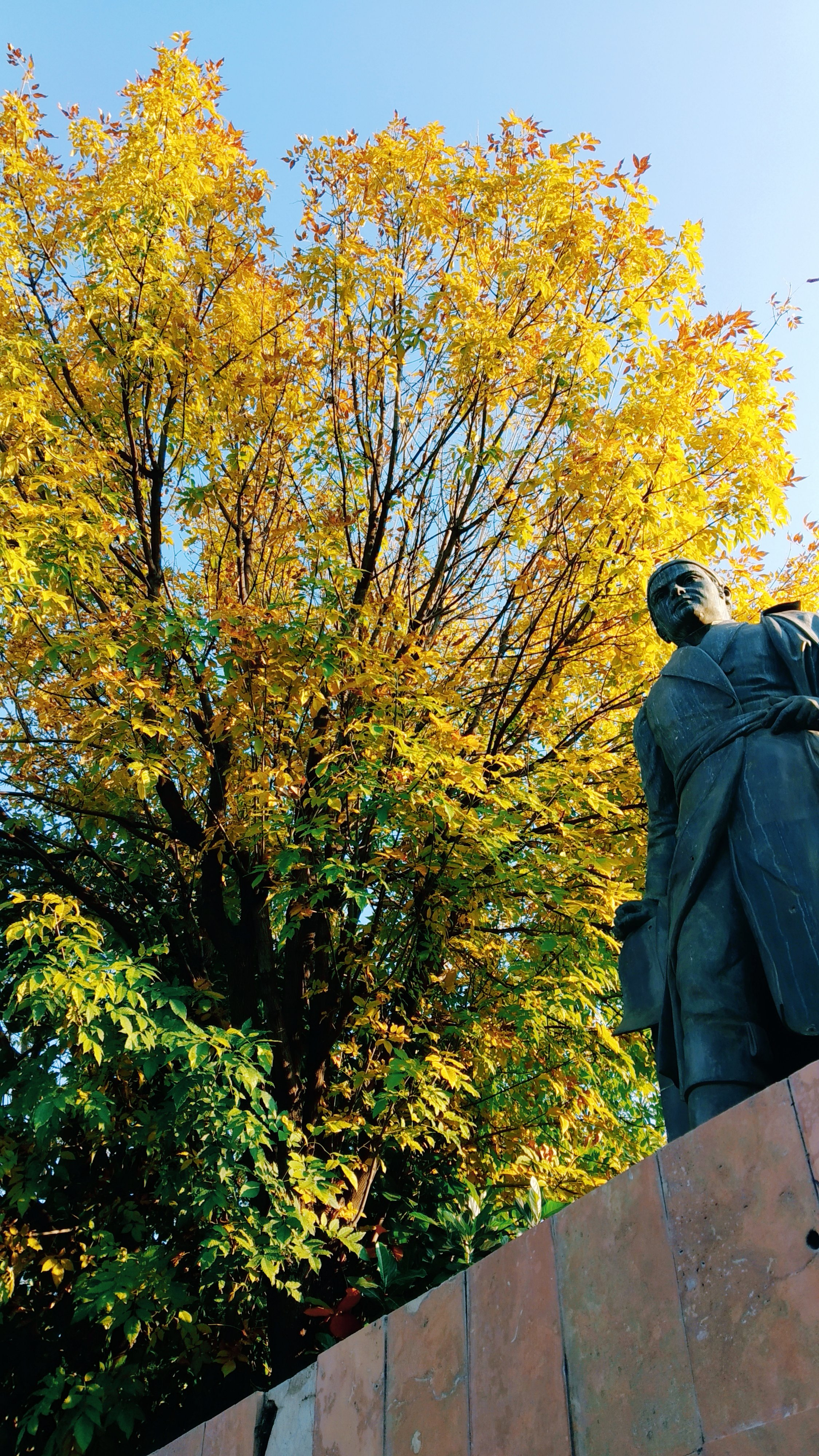 Otoño en el tren escénico de Cuautla de Morelos